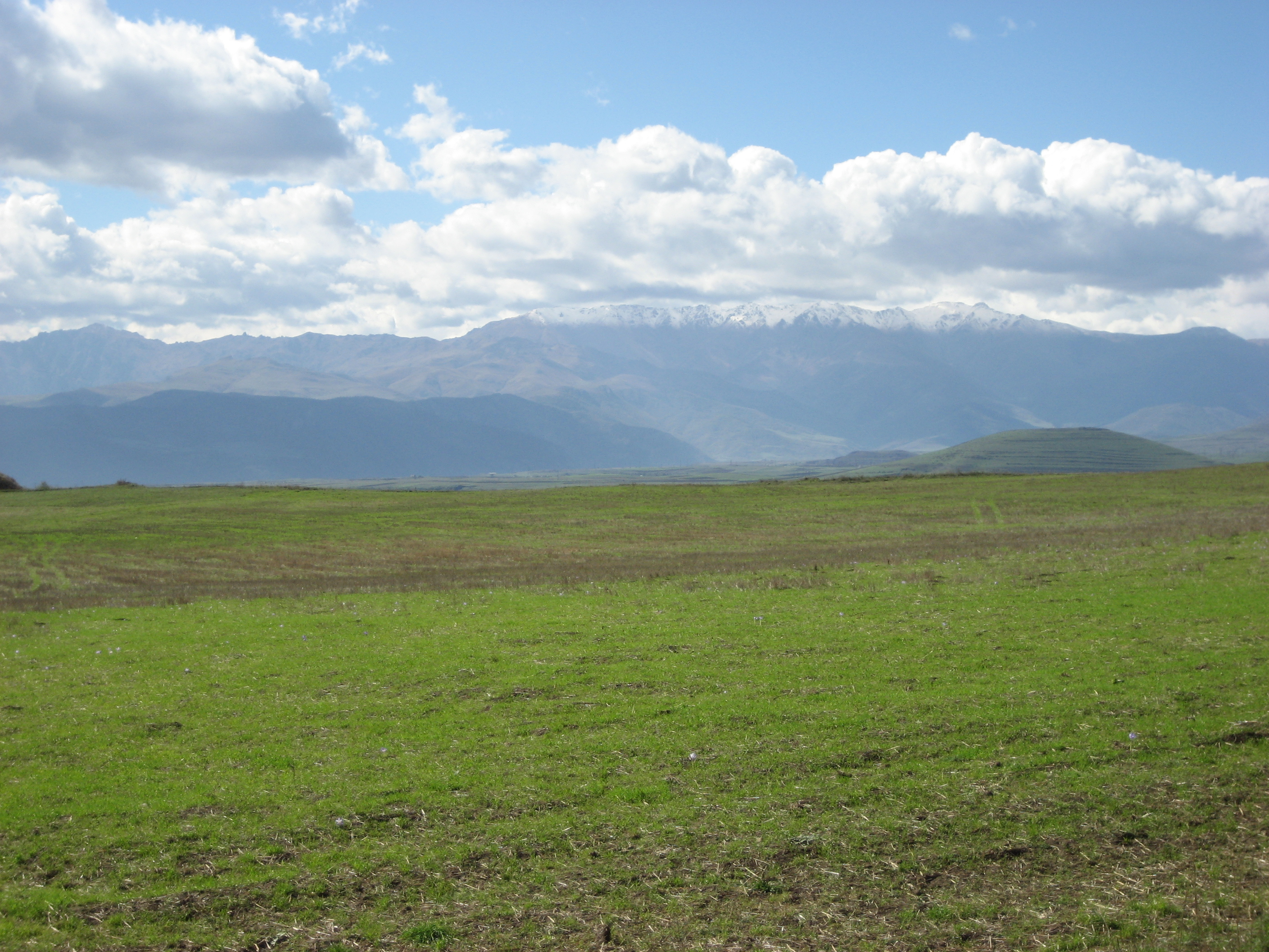 View of the Zangezur Mountains from east of Goris, Armenia.